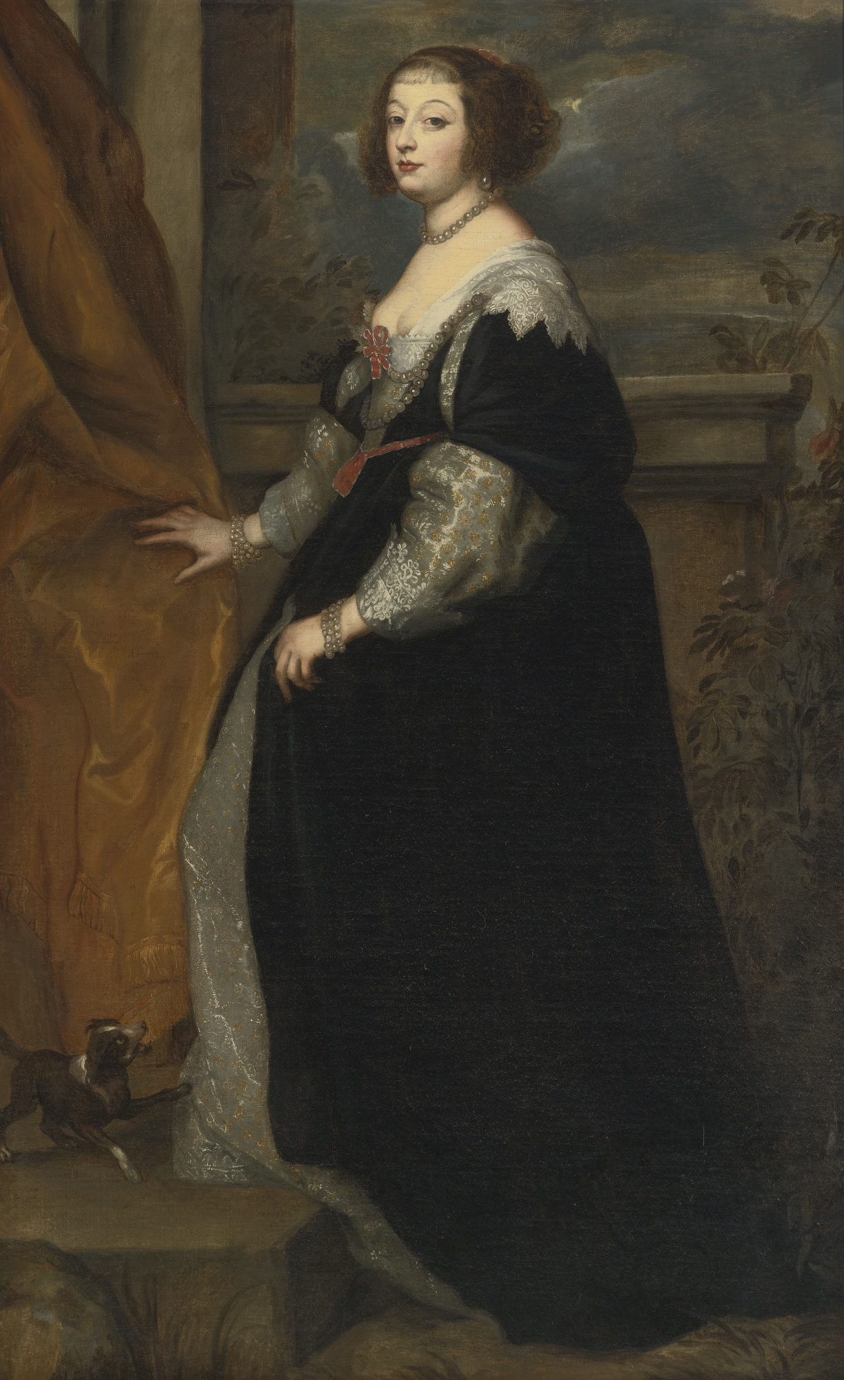 Portrait of Beatrice de Cusance, Princess of Cantecroix and Duchess of Lorraine